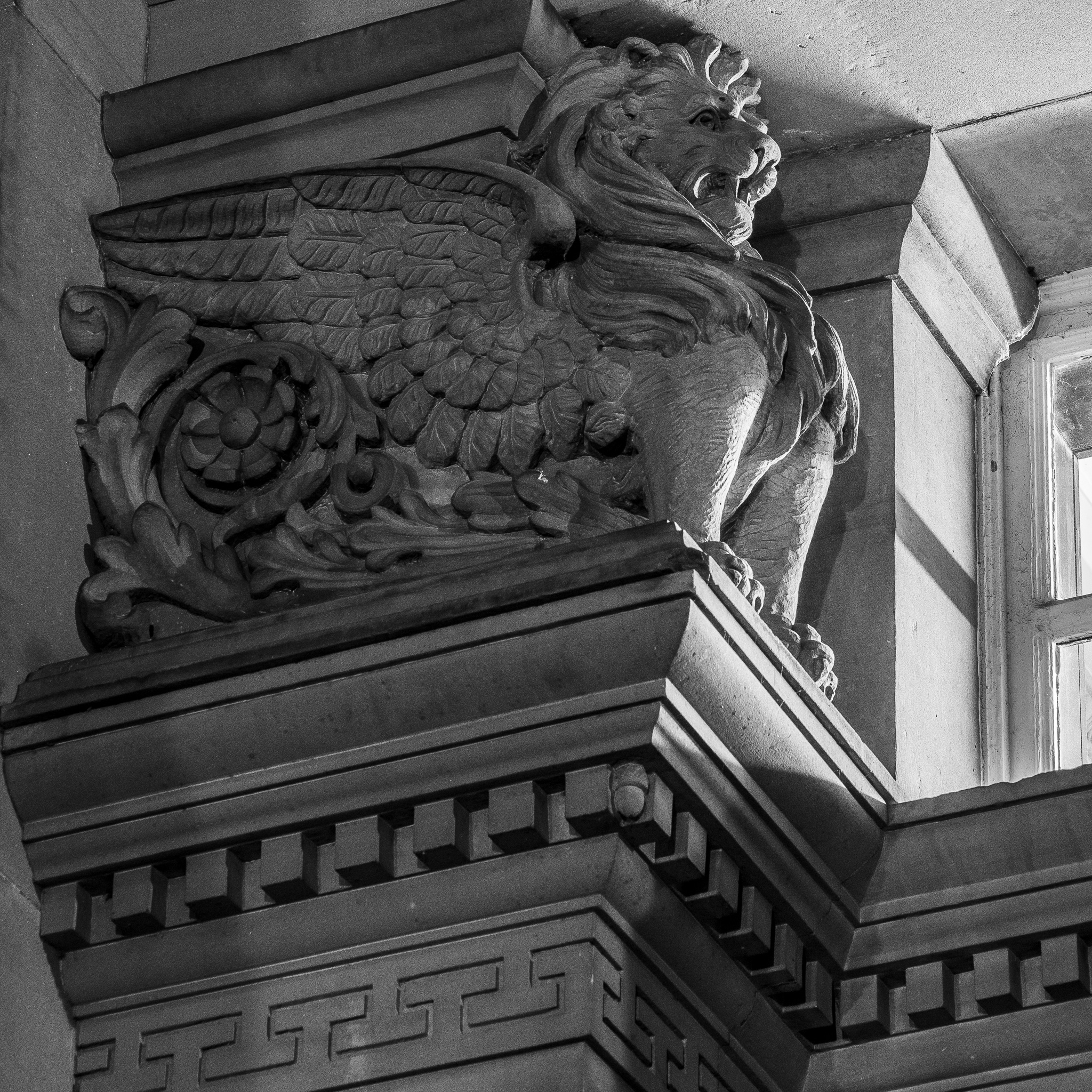 This file was uploaded as part of the Dumfries Stonecarving Project in Dumfries, Scotland, UK. This tag does not indicate the copyright status of the attached work. A normal copyright tag is still required. See Commons:Licensing.